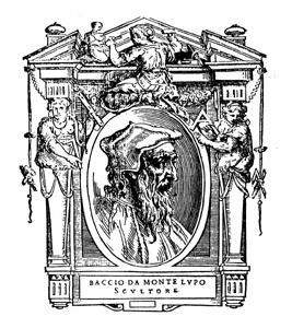 Illustratio from "Le Vite" by Giorgio Vasari, edition of 1568. For the artist portrayed see filename